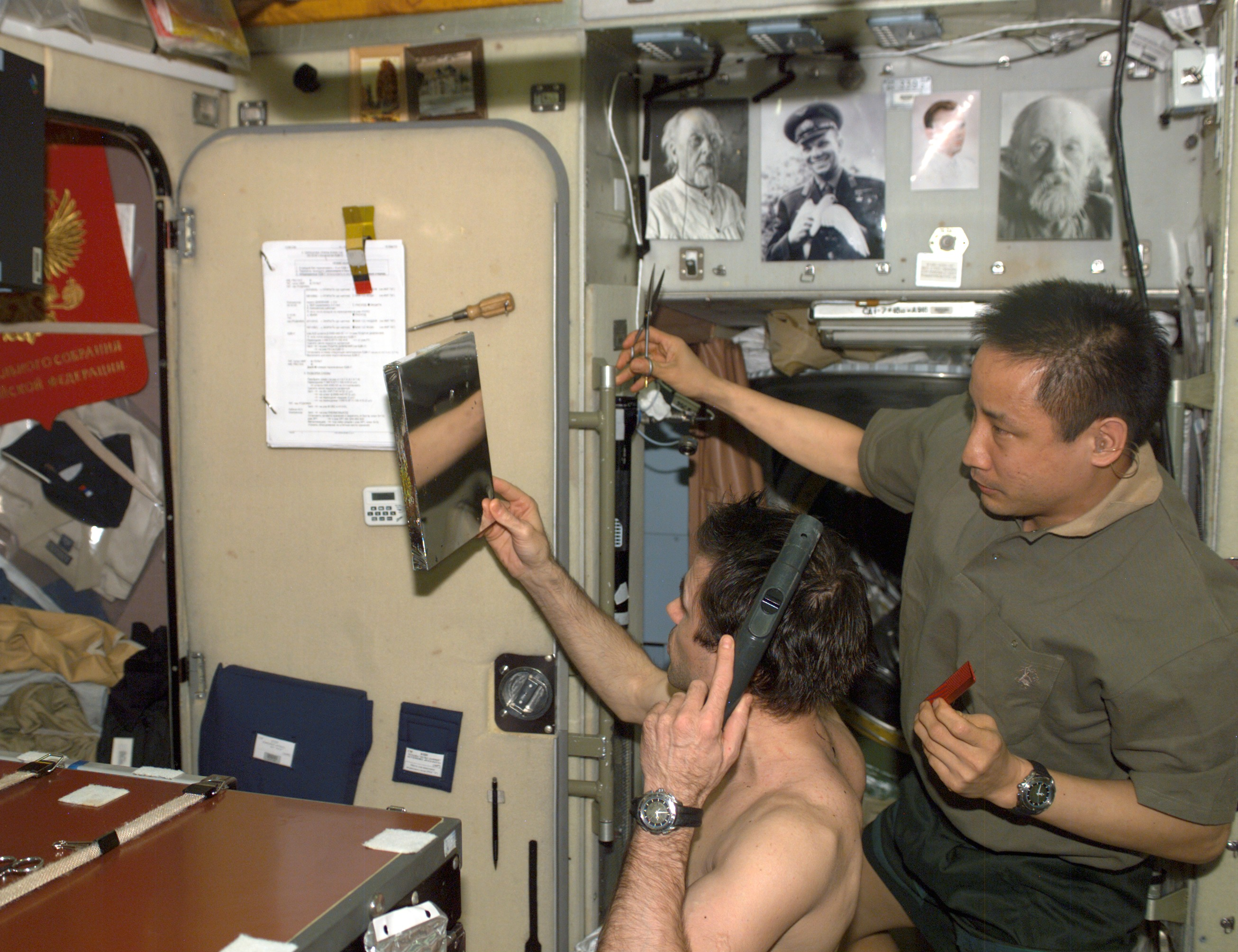 Haircut in space. Astronaut Edward T. Lu, Expedition 7 NASA ISS science officer and flight engineer, trims cosmonaut Yuri I. Malenchenko’s hair in the Zvezda Service Module on the International Space Station (ISS). Malenchenko, mission commander, holds a vacuum device, which a previous crew had fashioned, to garner freshly cut hair that is floating freely. Malenchenko represents Rosaviakosmos.